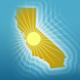 By EFF designer Hugh D'Andrade